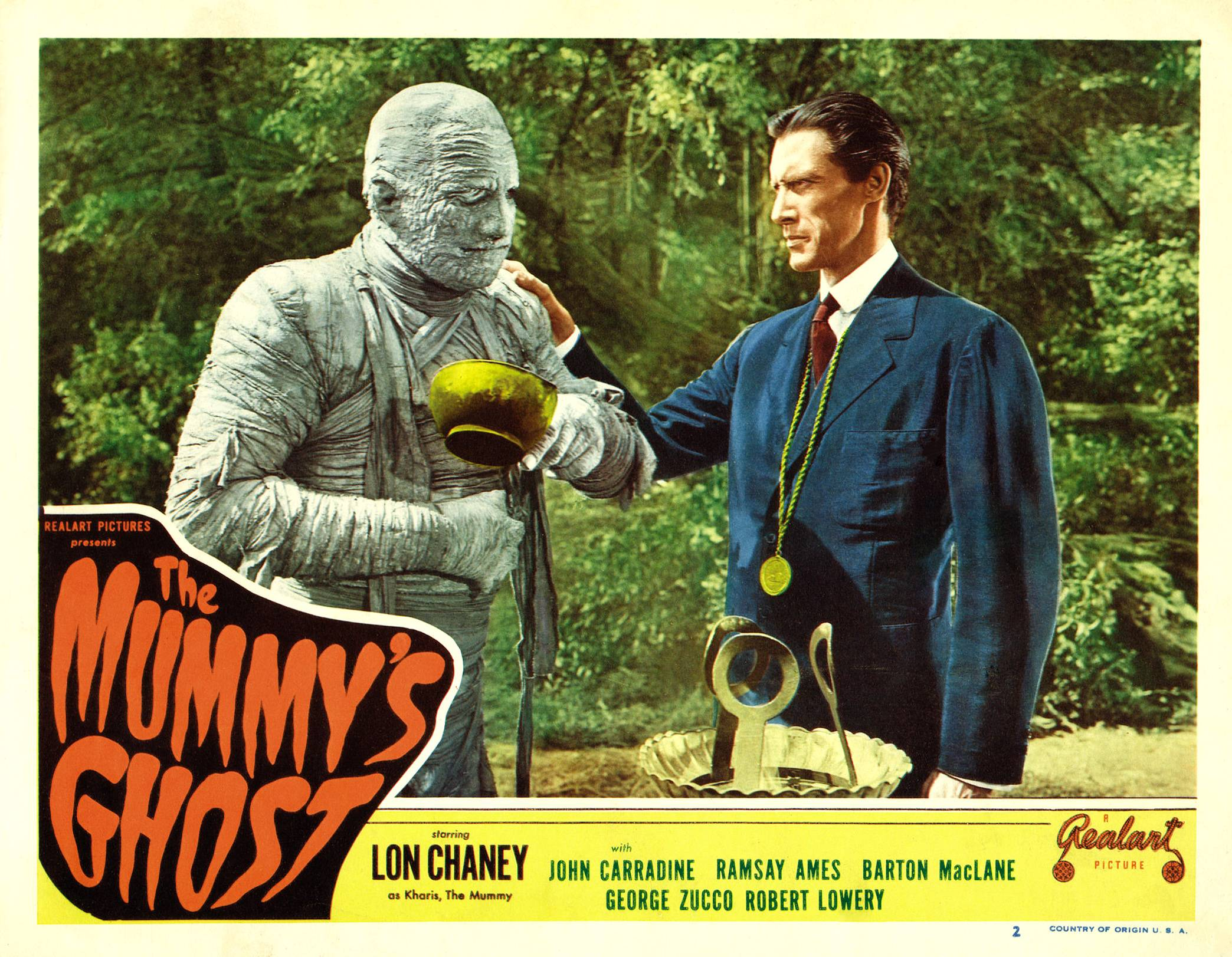 Colored lobby card for the 1944 film The Mummy's Ghost, featuring Lon Chaney Jr. This image is assumed to be in the public domain, as no copyright notice is in evidence.